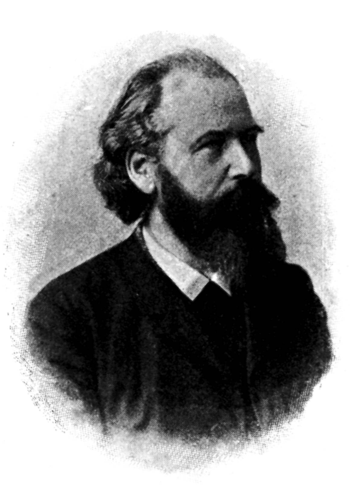 Johannes Gad